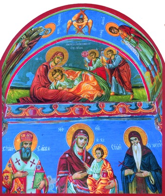 Fresoes in Hilandar Main Church by Veniamin and Zacharias, 1803 - 1804